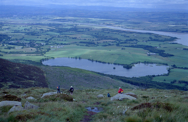 The path down from Criffel